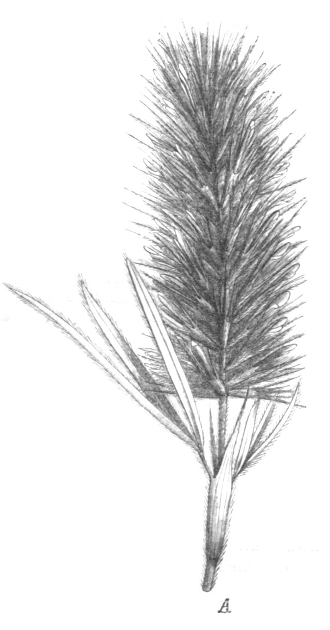 Illustration from book